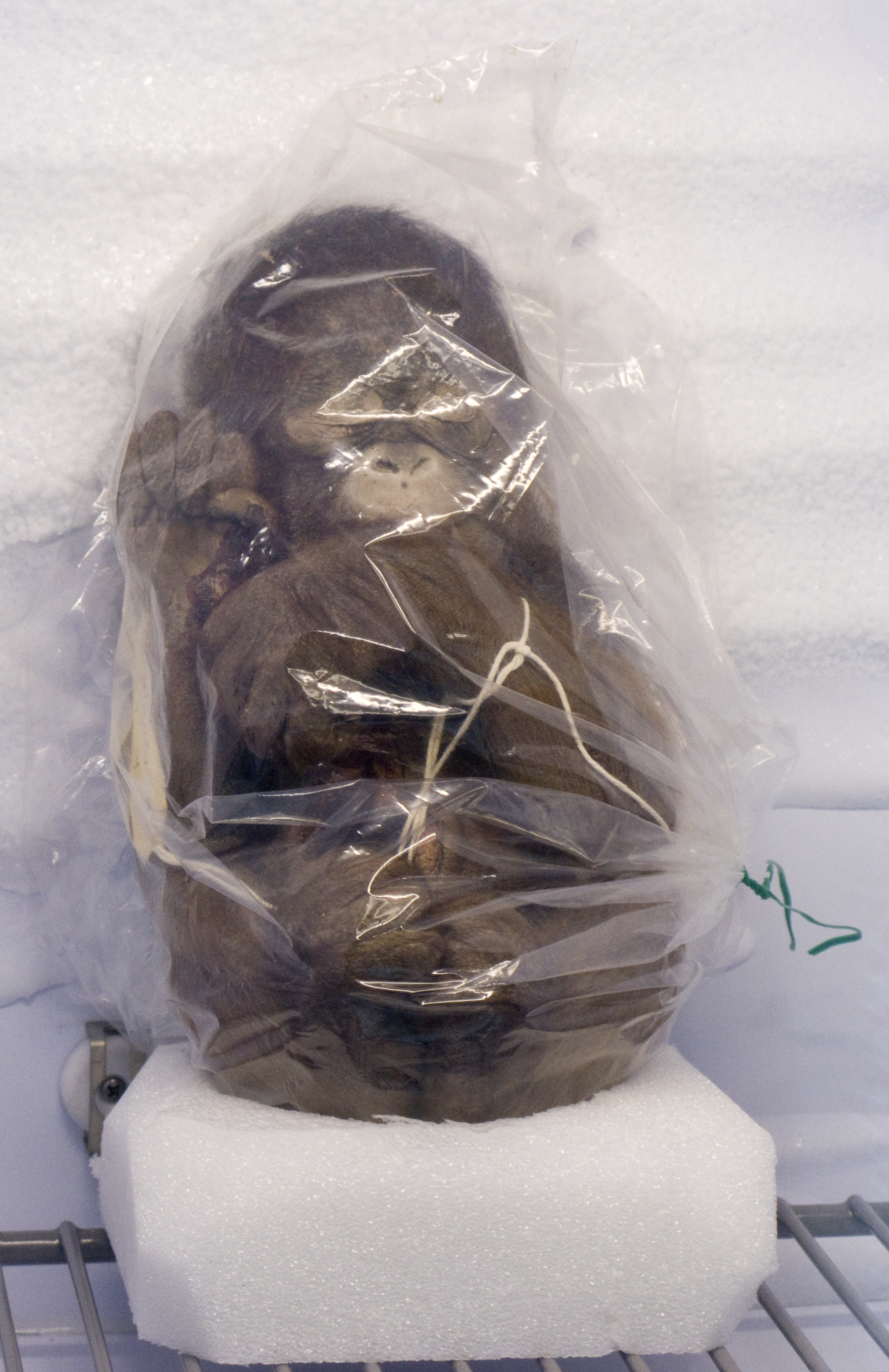 Frozen baby gorilla wrapped in a plastic bag. This young gorilla was an exhibit at the Auckland War Memorial Museum in New Zealand. The gorilla was confiscated during a routine baggage check by customs officials.